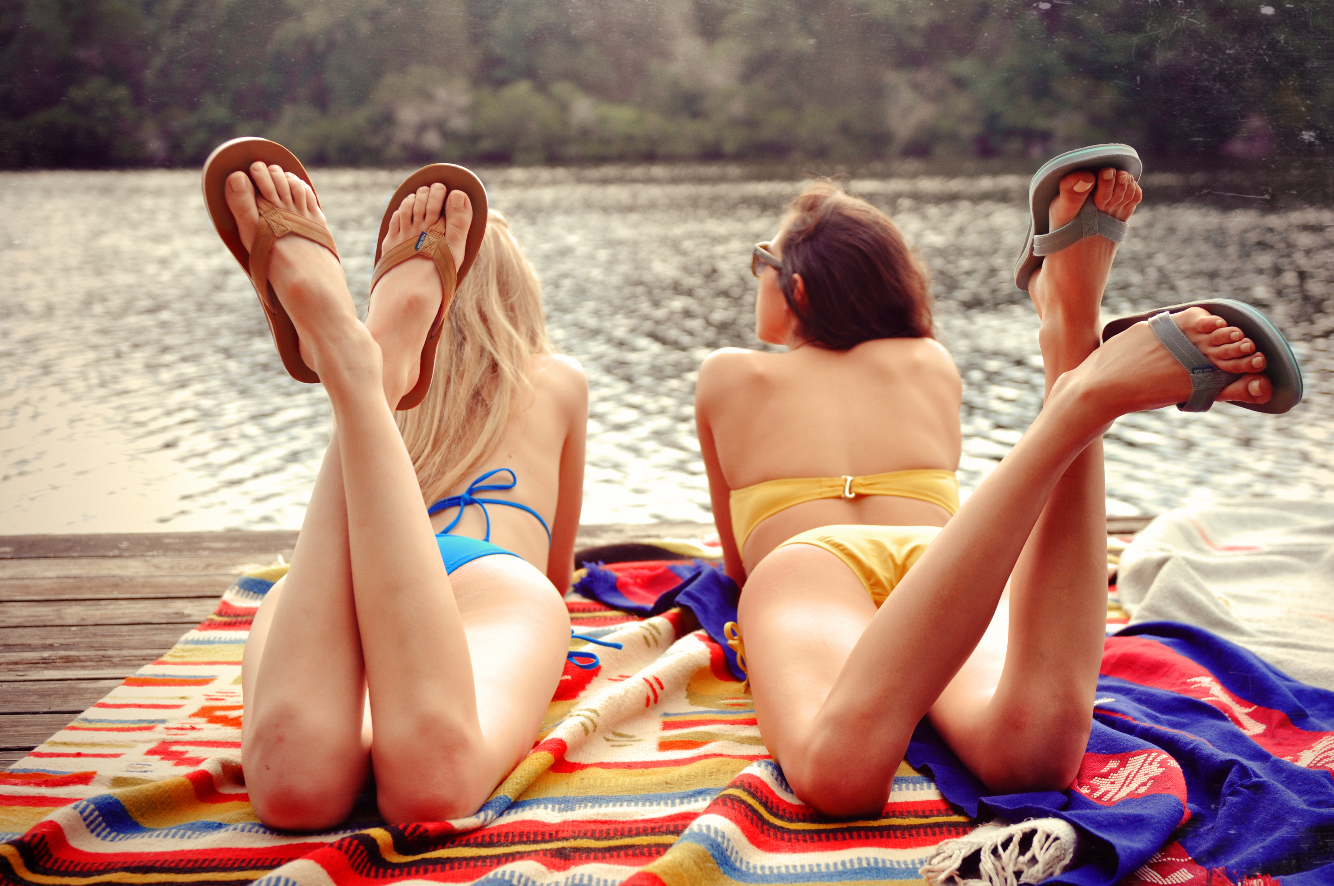 Hari Mari Lakes